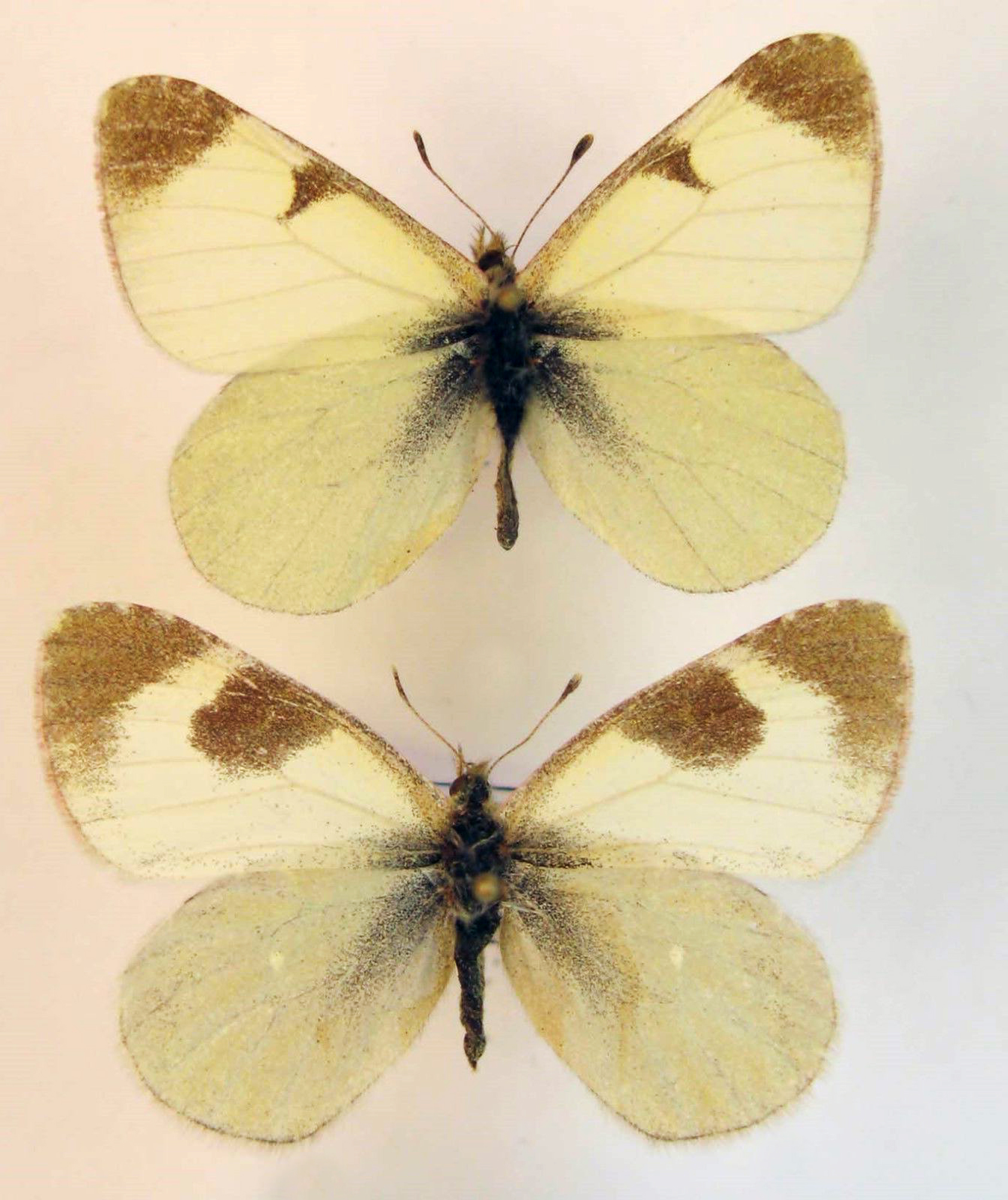 Euchloe tomyris